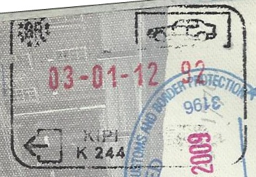 Greek passport exit stamp from Kipoi (Κηποι).